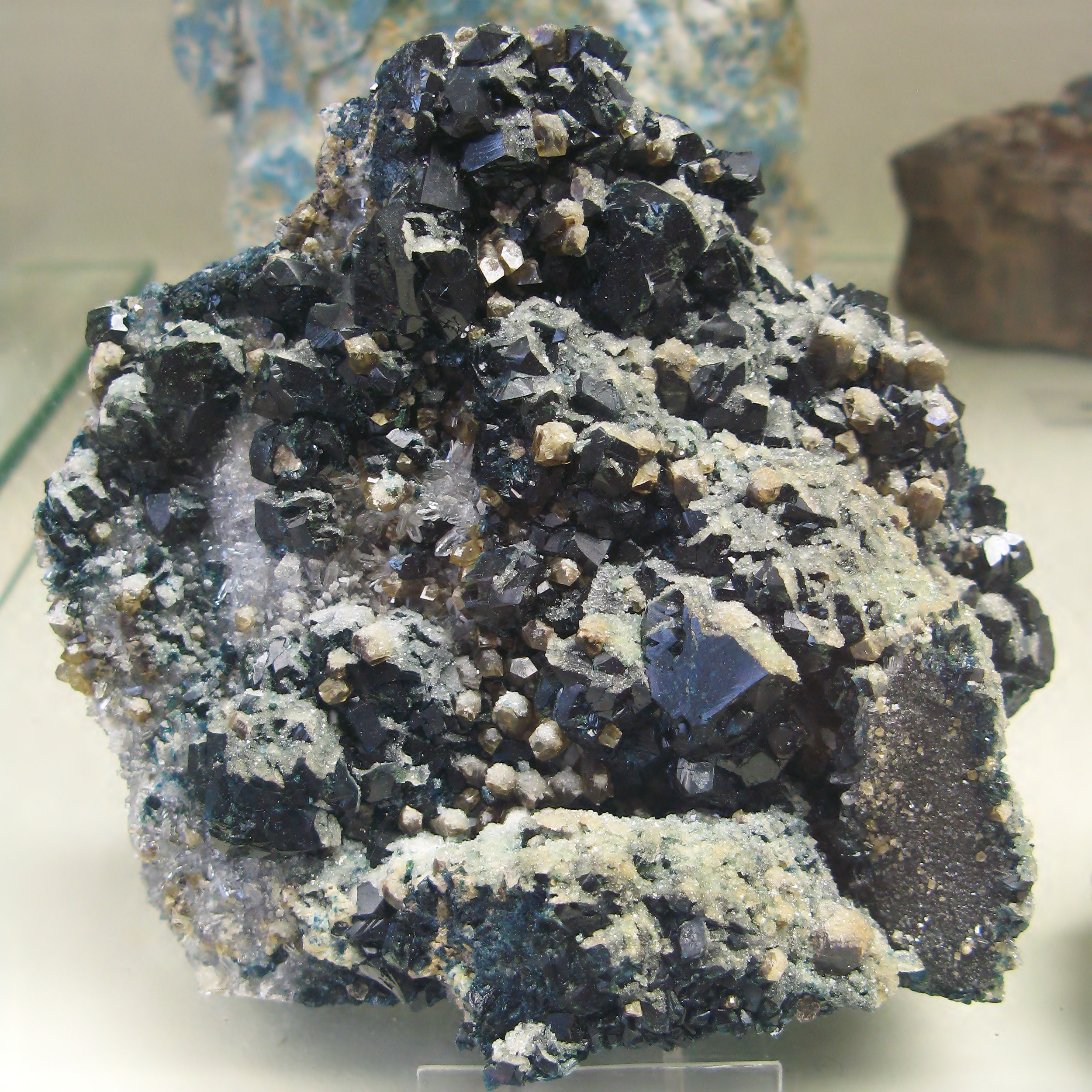 Lazulite-twins with Wardite, Siderite and Quartz - Locality: Rapid Creek, Yukon, Canada - Exposed in the Mineralogical Museum, Bonn, Germany